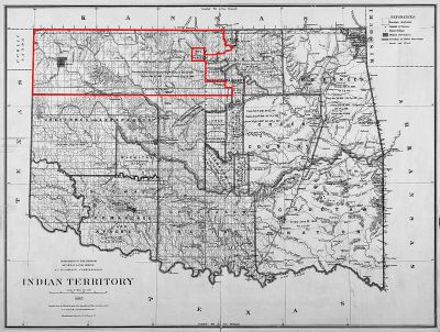 Map of Cherokee Outlet (Oklahoma) - 1885 federal government site, public domain (Cherokee Outlet outlined in red before posting) Area: 400x302 pix Size: 40.73 kb